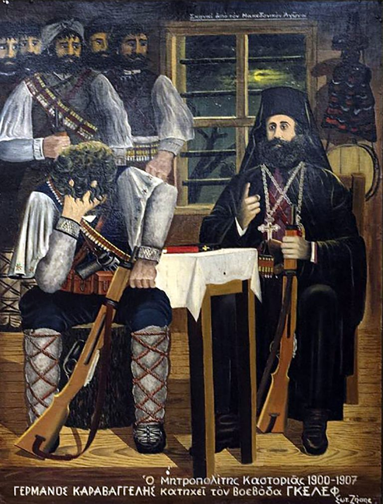 Bulgarian revolutionary Gele Tyrsiyanets meets Germanos Karavangelis and become greek andart in 1902